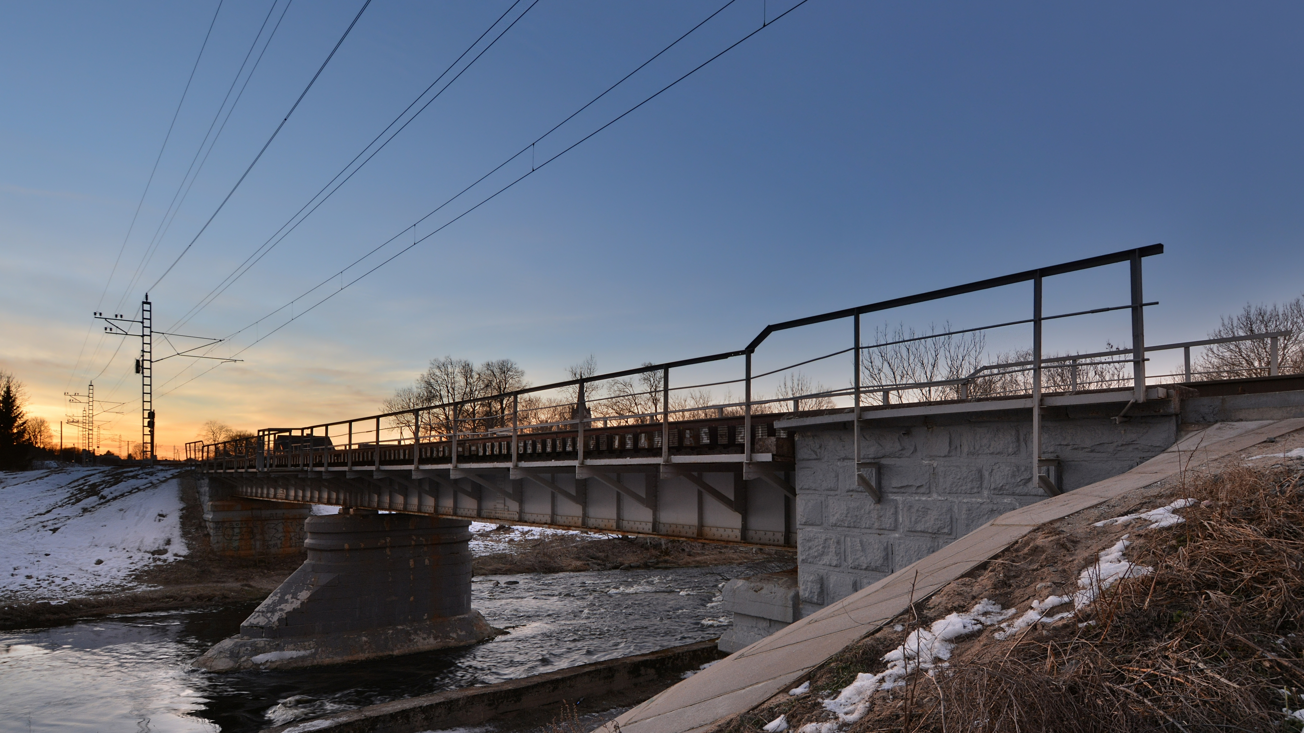 Keila railway bridge